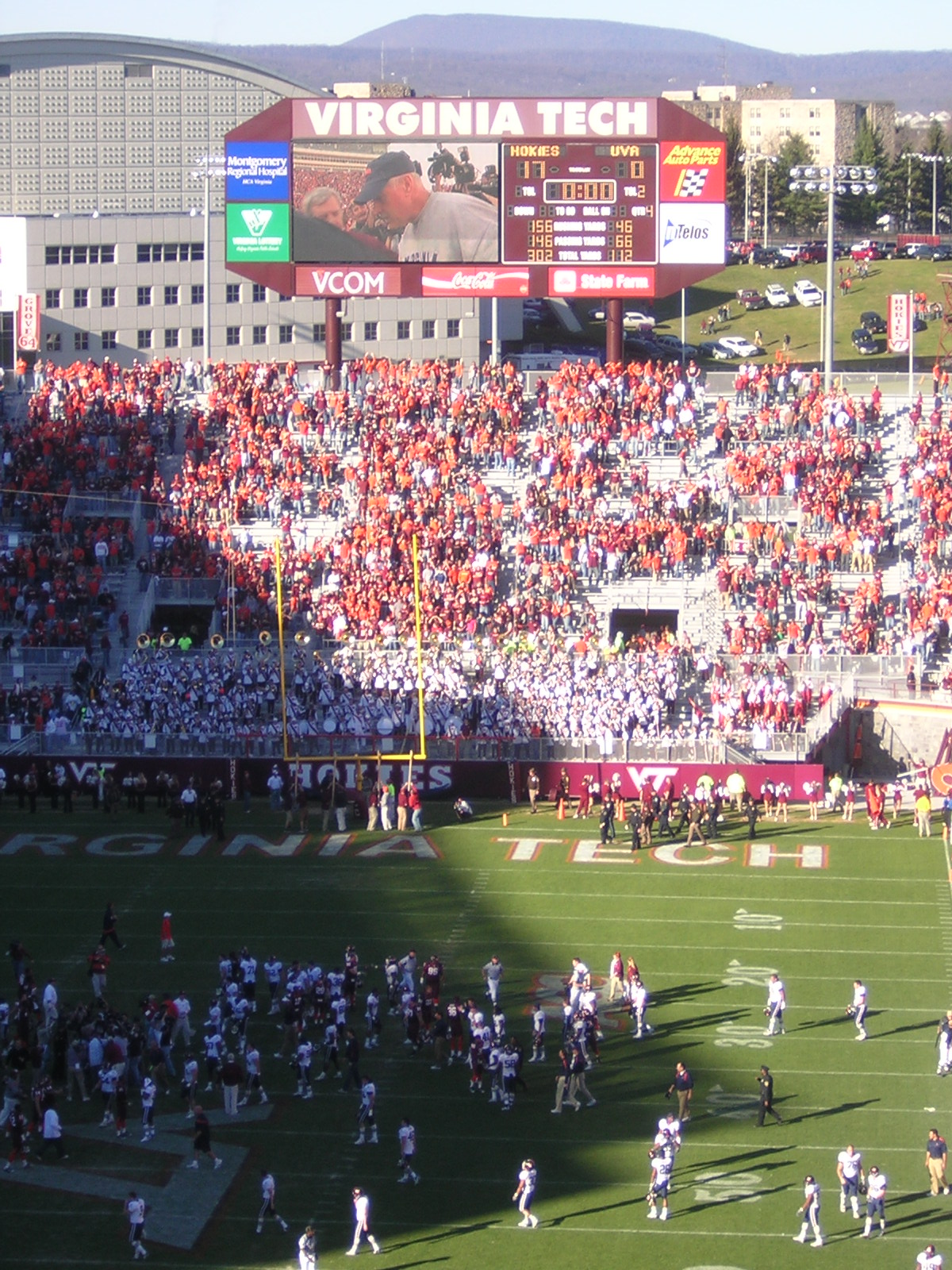 I took this photograph at the 2006 battle for the Commonwealth Cup (en) between the Virginia Tech Hokies and University of Virginia Cavaliers